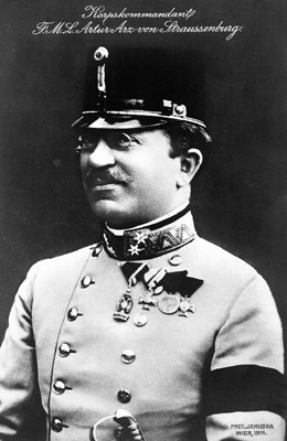 Lieutanant-Field Marshal FML Baron Arz Arthur von Straussenburg, Chief of General Staff of the Austro-Hungarian Monarchy 1917-1918. Photo made in 1914.